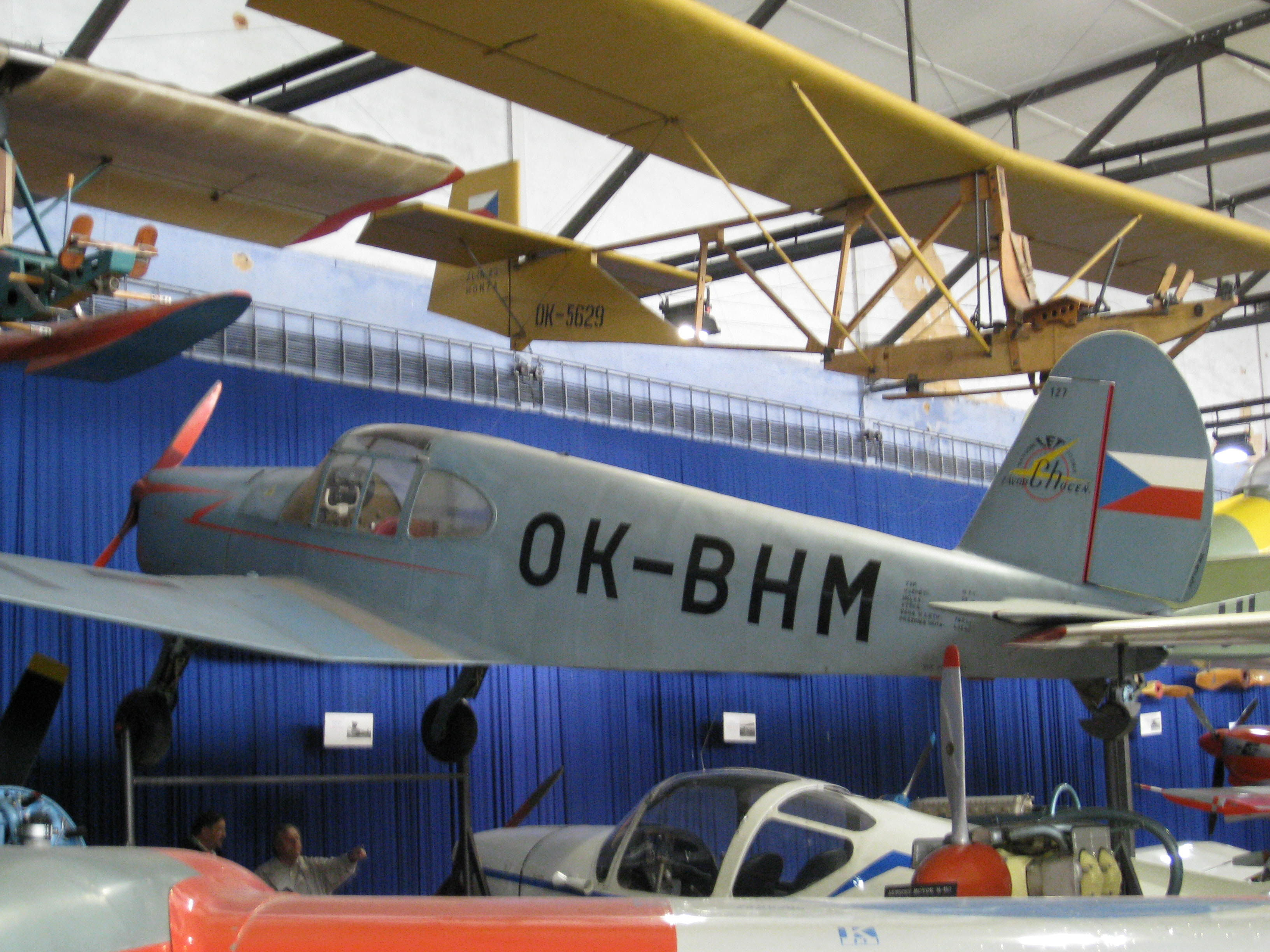 Mraz M-1C Sokol OK-BHM on display at the Prague Aviation Museum, Kbely